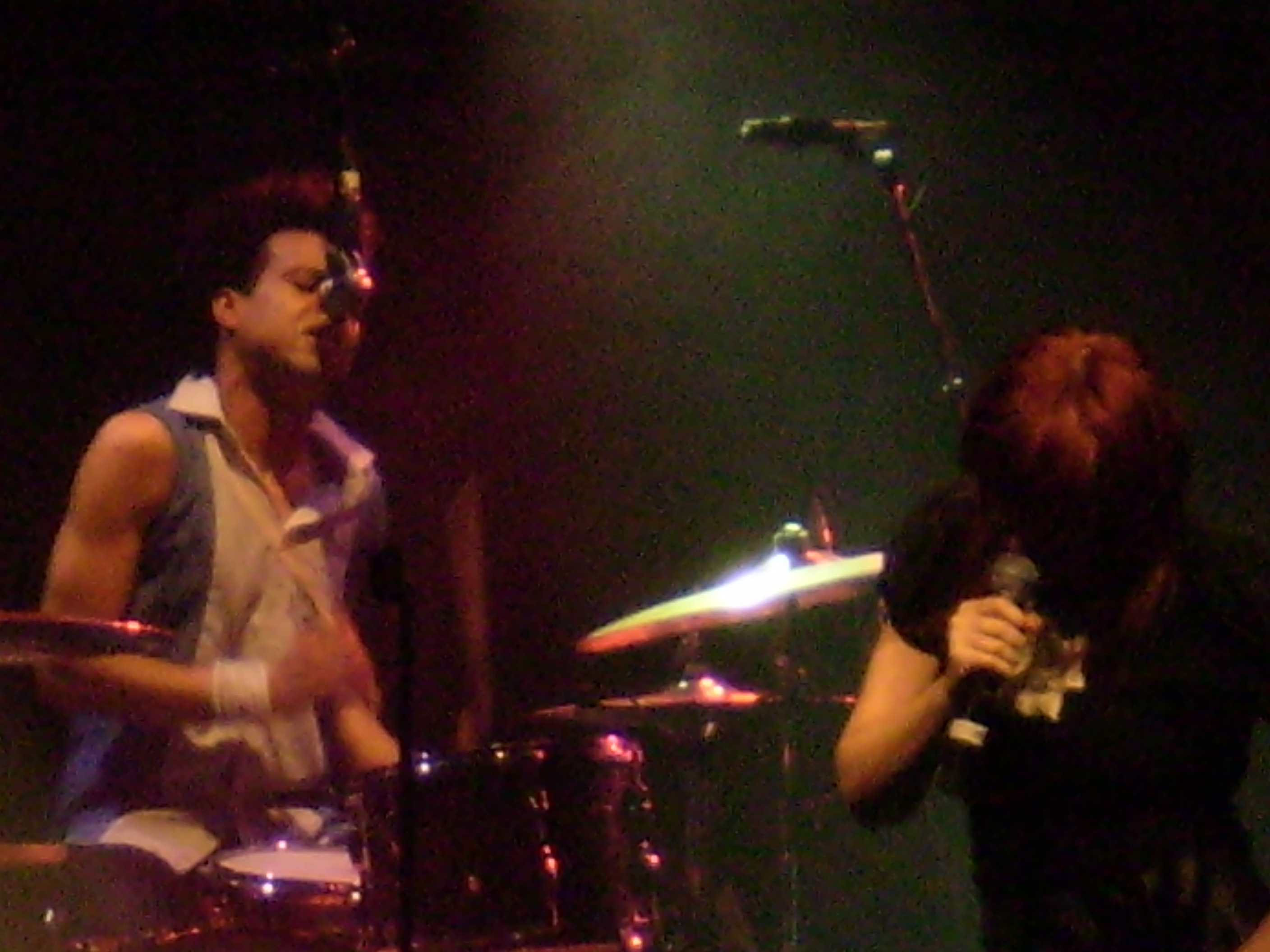 Charley Drayton (left) and Chrissy Amphlett (right) of Divinyls, playing live at The Forum Theatre in Melbourne, Australia